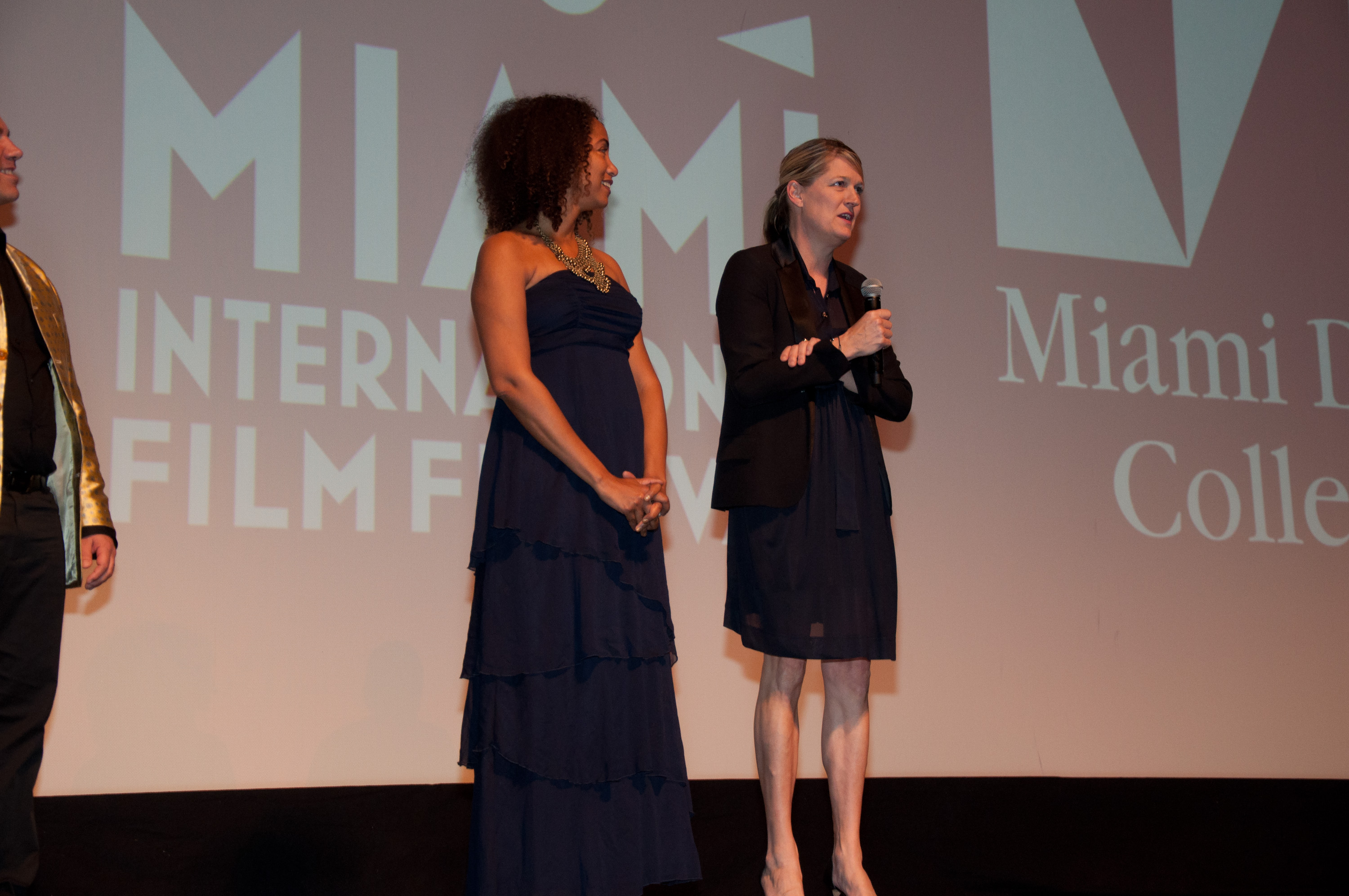 Venus And Serena directors Michelle Major and Maiken Baird at the Miami International Film Festival Premiere, Award Night Ceremony at Olympia Theater at the Gusman Center for the Performing Arts on March 9, 2013